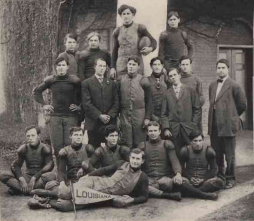 Photo of LSU 1906 football team.